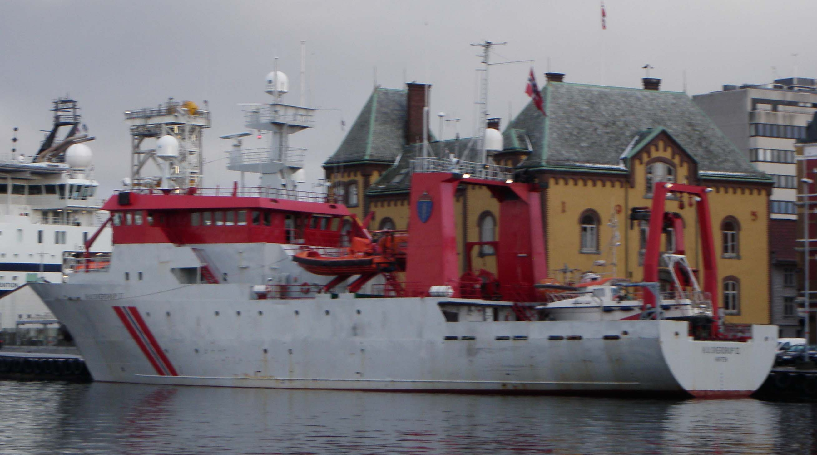 The Norwegian research vessel MS H.U. Sverdrup II at anchor in Stavanger, Norway.